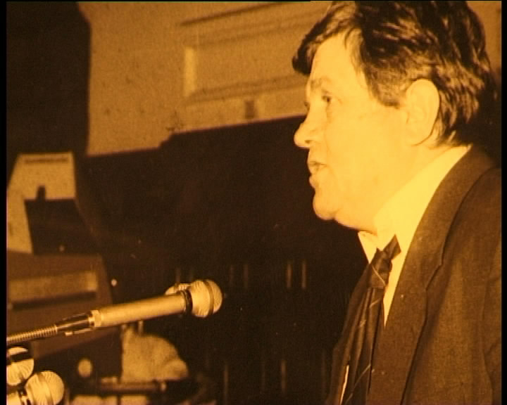 Ioan Alexandru in Parlamentul Romaniei